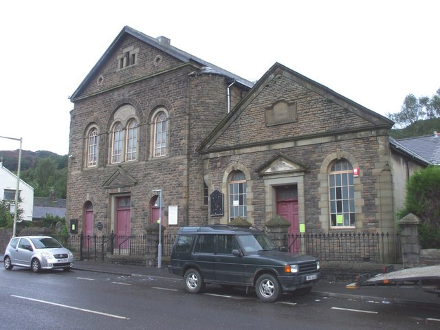 Capel Rhondda, Hopkinstown A plaque on the chapel states that the tune Cwm Rhondda, by John Hughes, was sung here for the first time on 1st Nov. 1907.